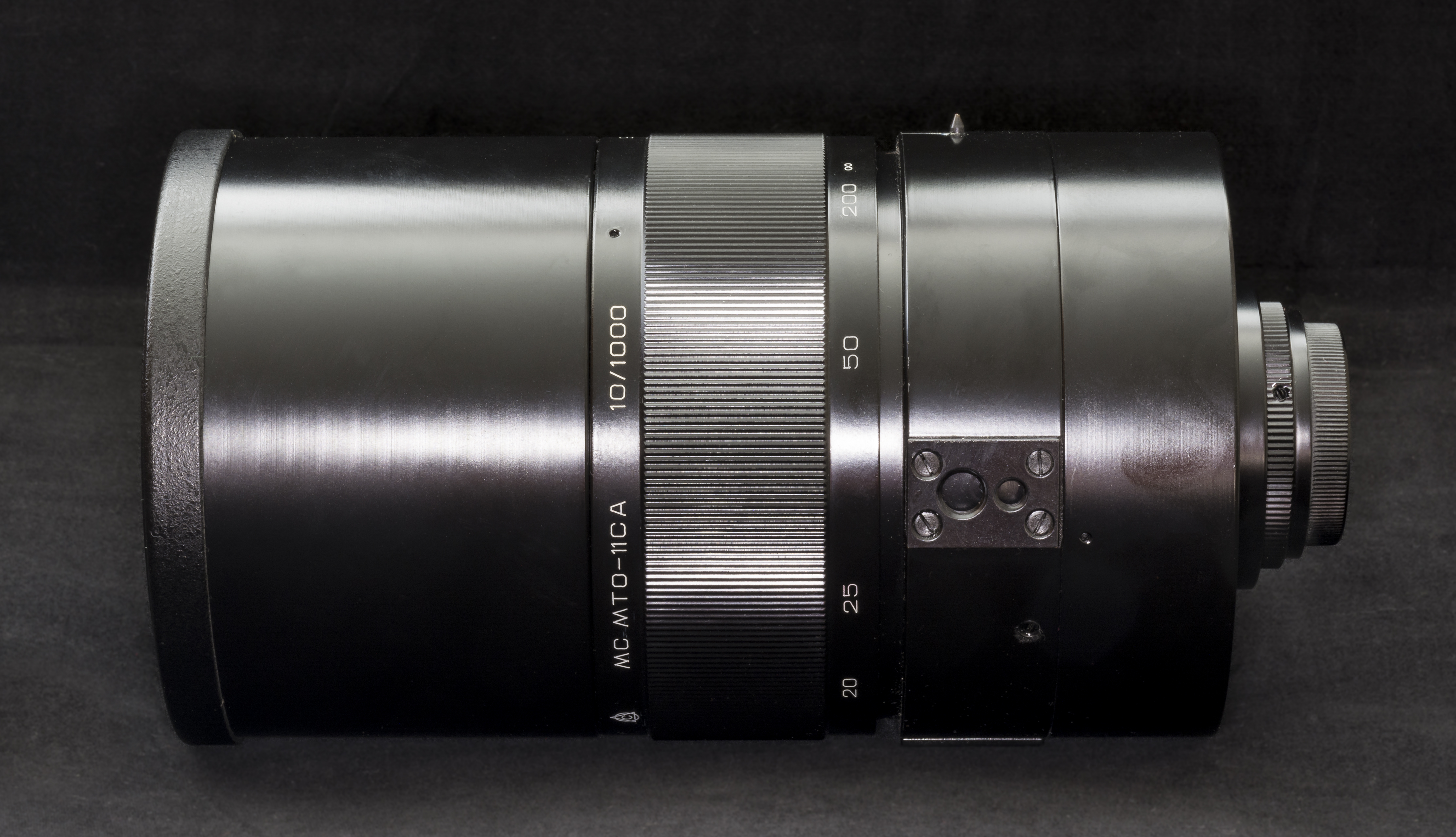 Russian catadioptric (mirror) photolens «MC MTO-11CA»